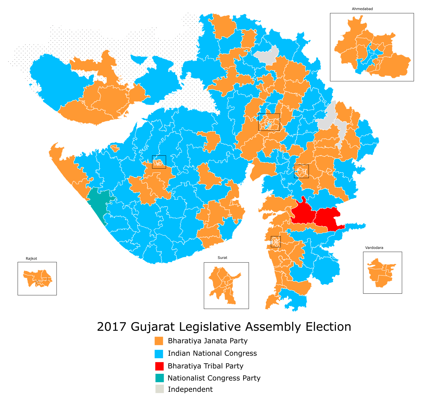 Result map of Gujarat legislative assembly election, 2017 in Indian state of Gujarat